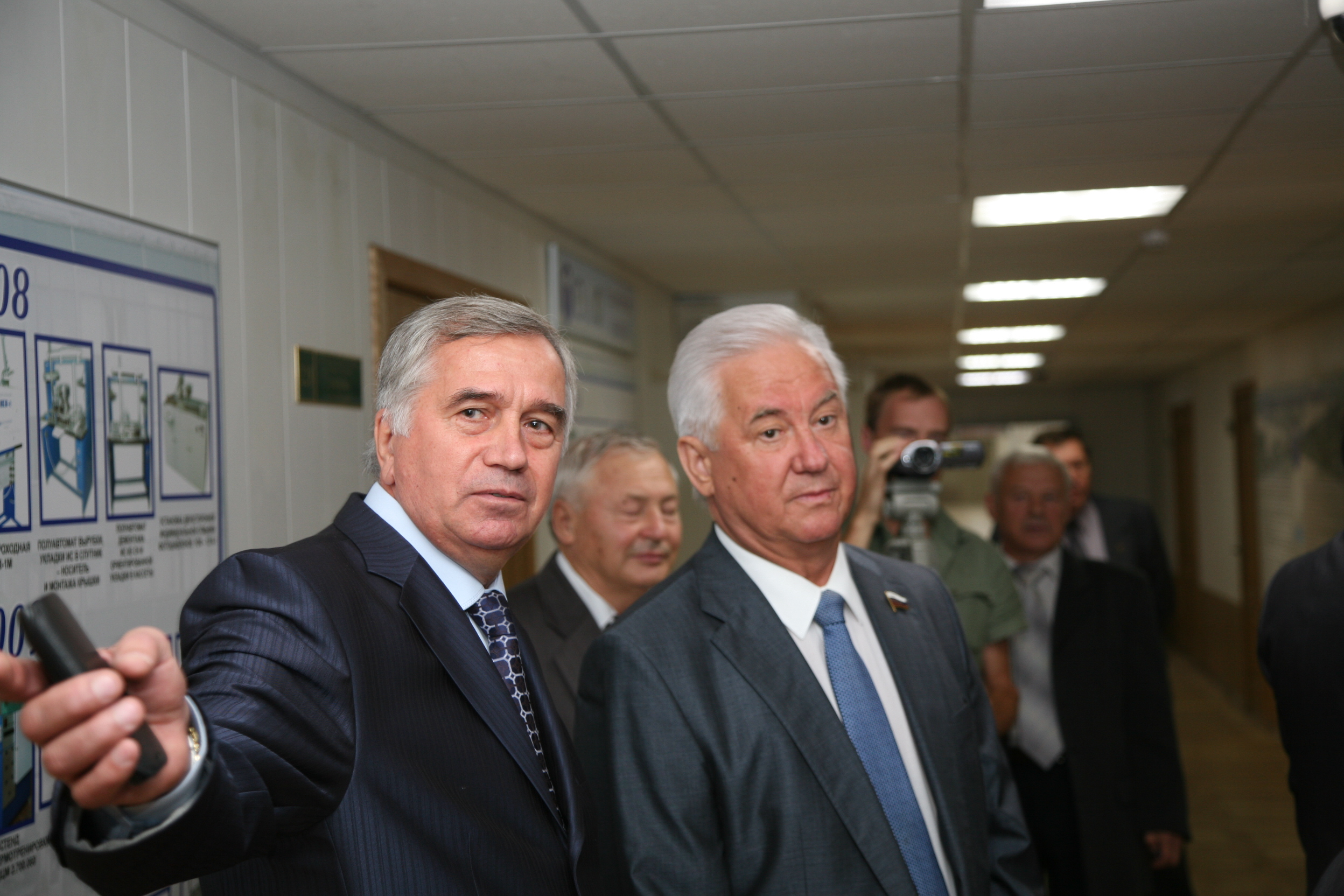 Typikin i Kylakov